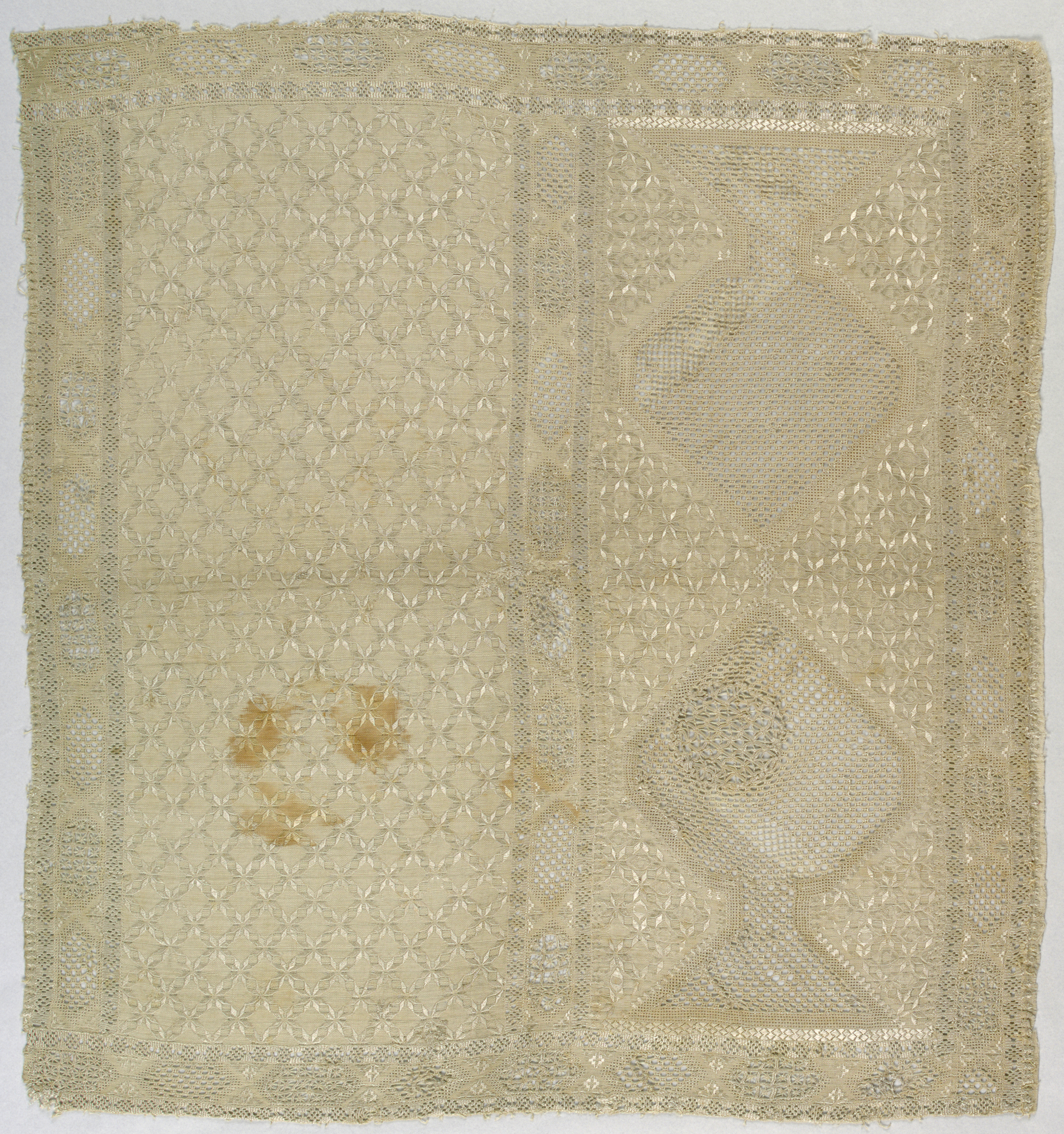 Square divided into two parts: one showing tree-like forms in openwork and the other showing a series of eight pinted starsarranged in crossing diagonal lines. Entire piece surrounded by a border with hexagons in openwork. The stitches used are counted running and lace stitches.